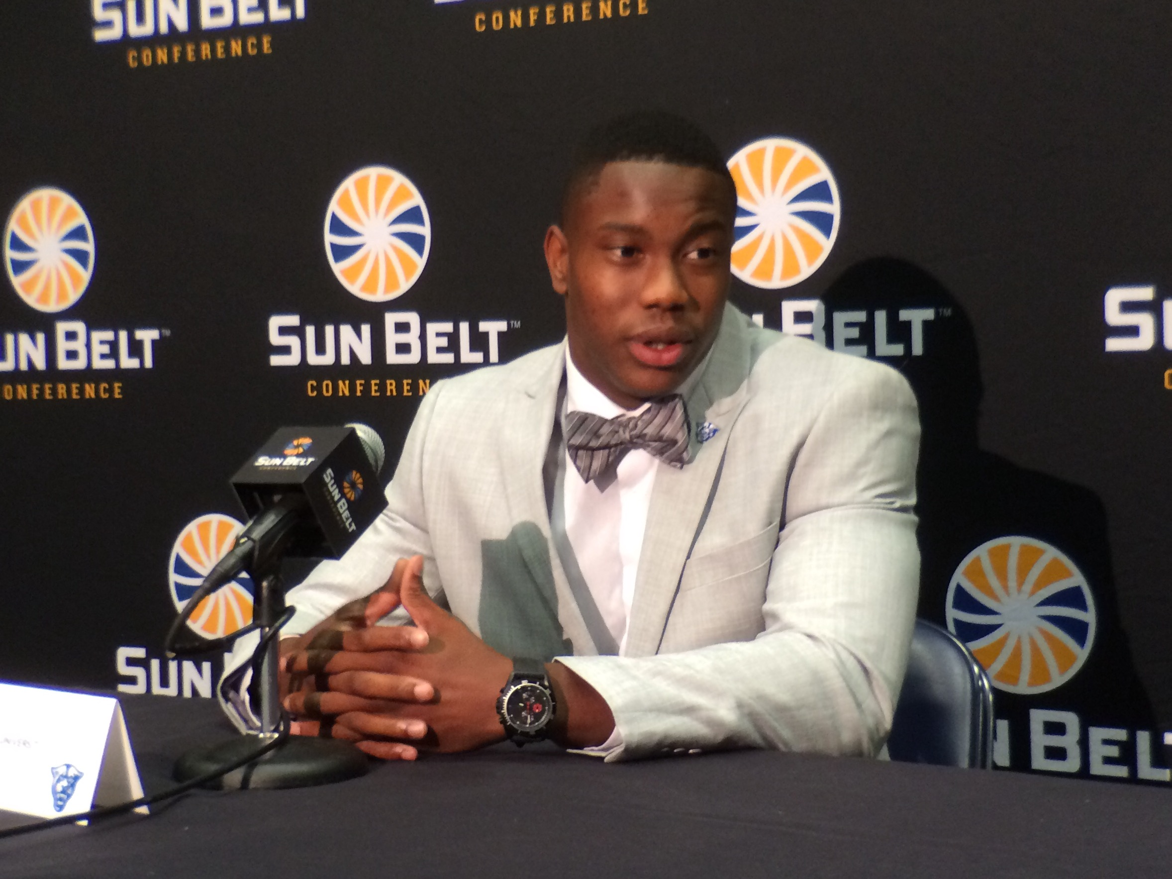 Robert Davis, wide receiver on the Georgia State Panthers football team, at the 2016 Sun Belt Conference Media Day in the Mercedes-Benz Superdome in New Orleans.